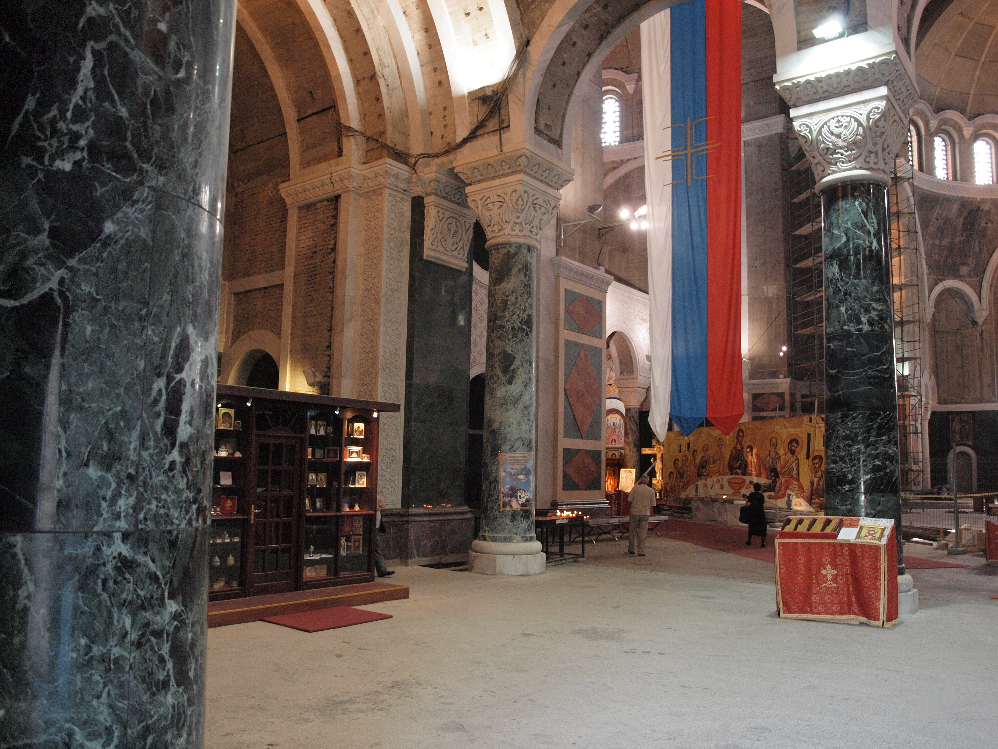 Columns at the entrance into Saint Sava